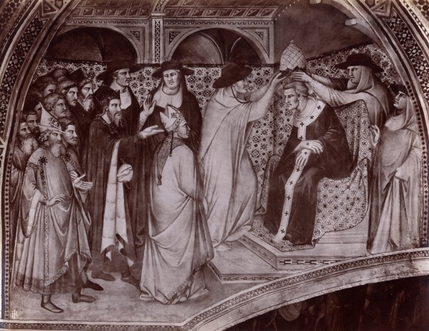 Fresco at Siena: Election of Antipope Paschal III